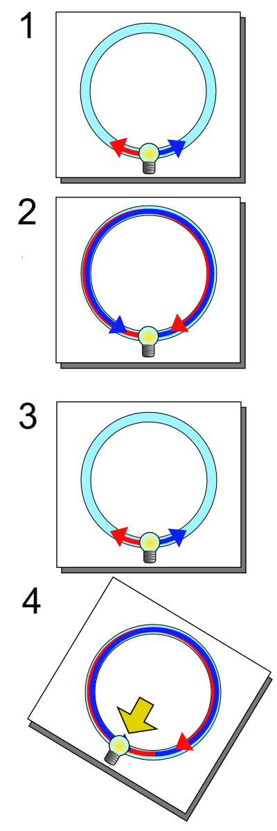 Sagnac effect 2 (No text)